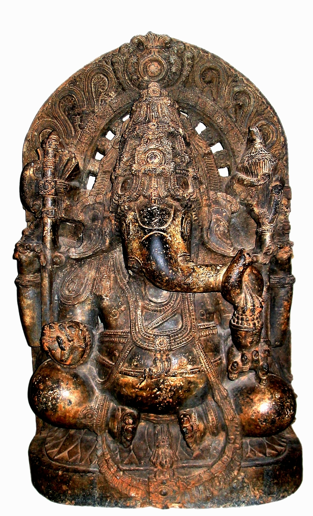 Seated Ganesha 12th-13th century Hoysala dynasty Chloritic schist H: 88.6 W: 53.7 D: 33.7 cm Halebid, Karnataka, India This sculpture displays the ornate carving and exuberant decoration characteristic of art created under the Hoysala dynasty (1042–1346). The decorated floral arch surrounding the sculpture suggests that it once occupied a cell or niche in a temple. Housed in the Arthur M. Sackler Gallery in the Smithsonian, Washington, D.C.[1]